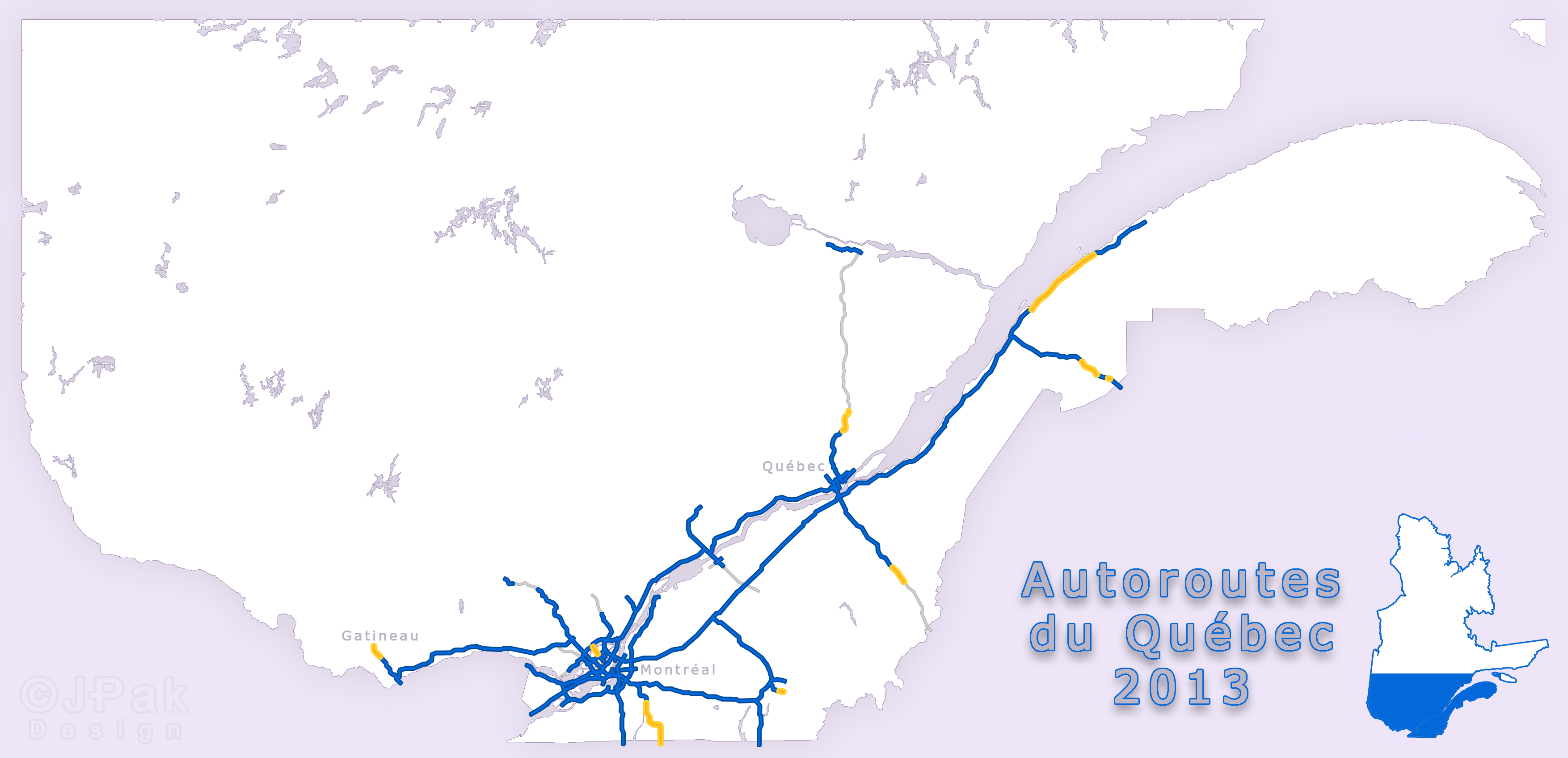 Map of Quebec Autoroutes as of 2013. Blue: Existing autoroutes Orange: Autoroutes in development or under construction Grey: At-grade highways that may be developed in the future